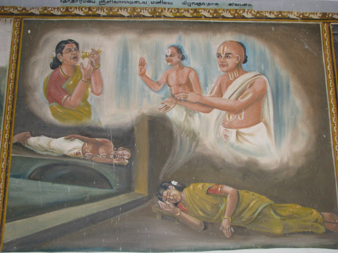 painting at sri desika birth place srithooppul